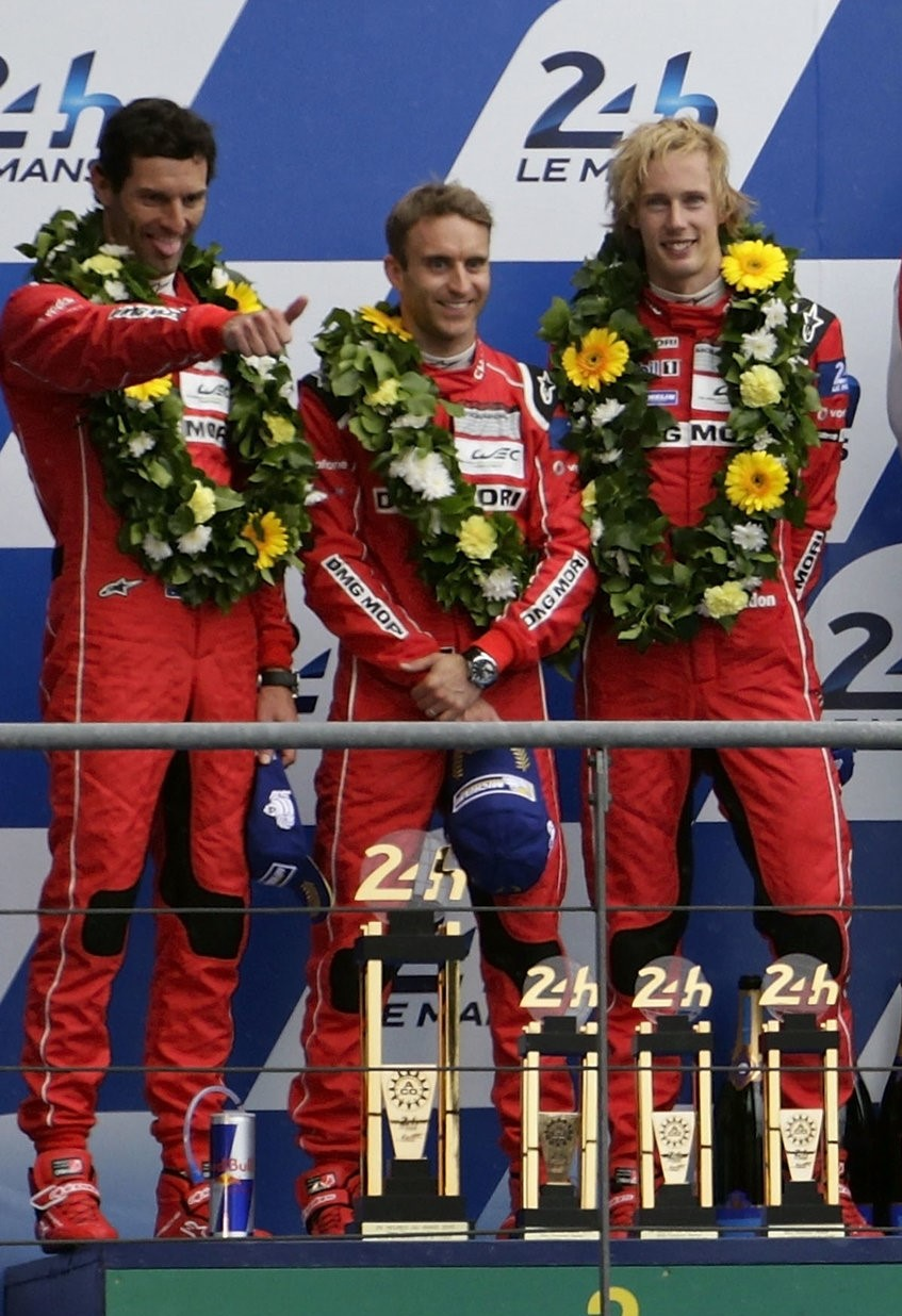 An image of Mark Webber, Timo Bernhard, and Brendon Hartley on the podium at the 2015 24 Hours of Le Mans.